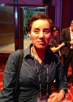 Maryam Mirzakhani at the Seoul convention of the International Congress of Mathematicians (ICM)